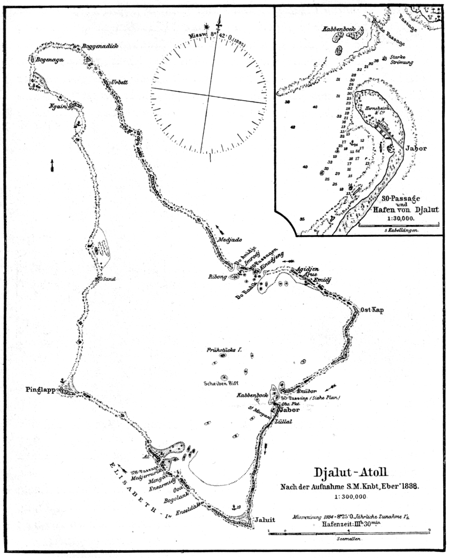 map of Jaluit Atoll (with inset of Jabor Island), Marshall Islands, Micronesia, Pacific Ocean